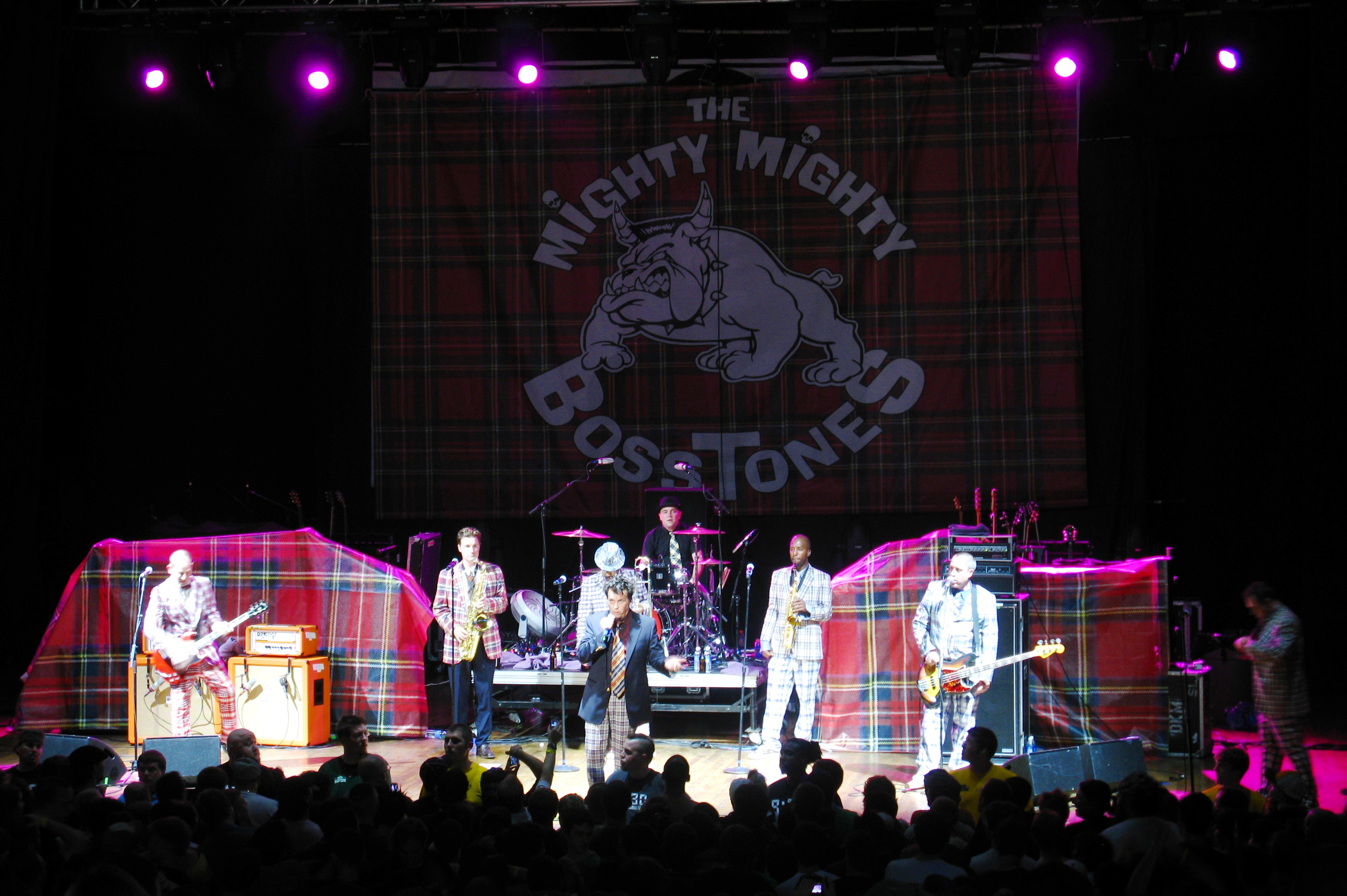 The Ska-band The Mighty Mighty Bosstones live in concert.